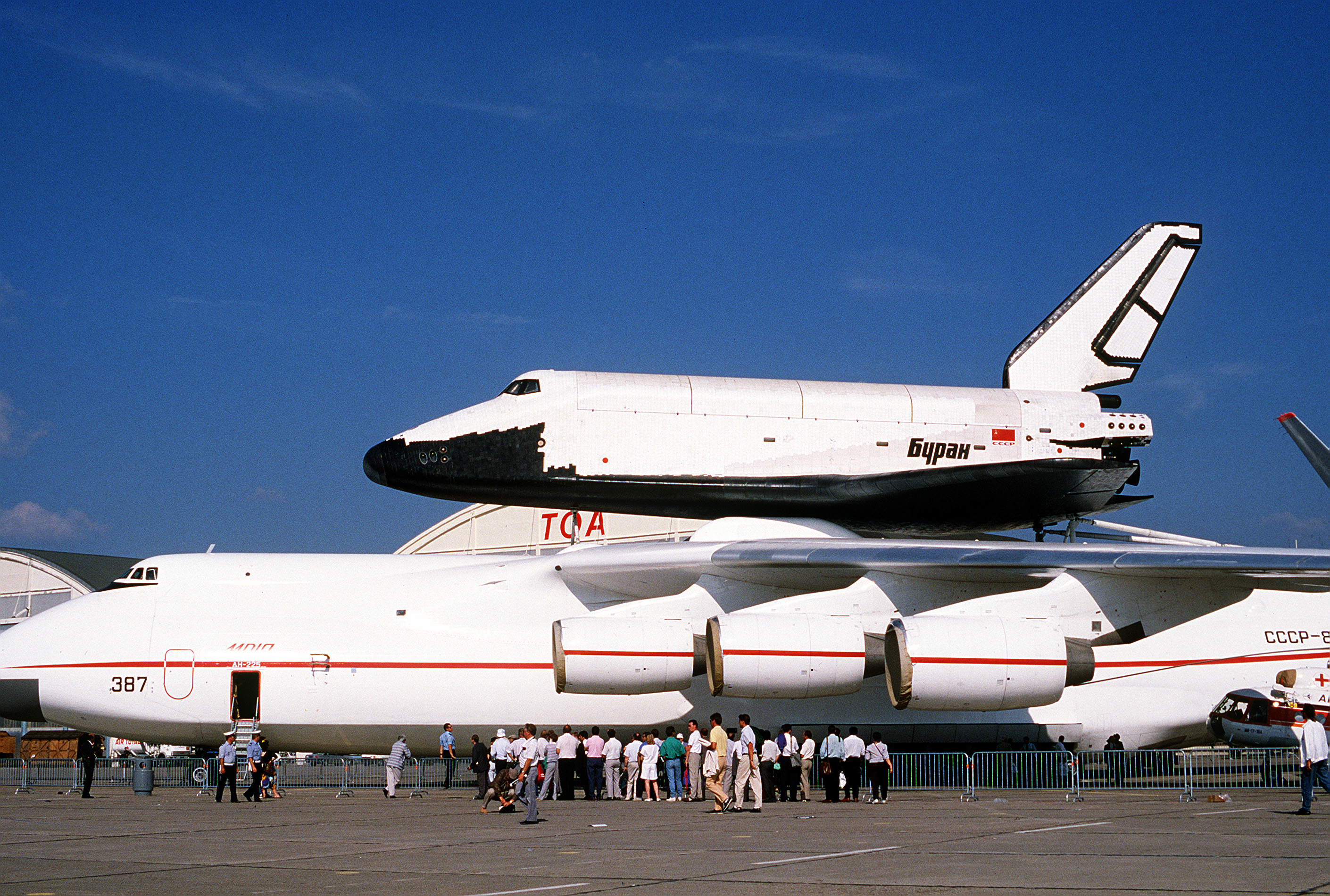 Visitors at the 38th Paris International Air and Space Shown at Le Bourget Airfield line up to tour a Soviet An-225 Mriya aircraft with the Space Shuttle Buran on its back.